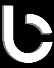 Biffy Clyro's Logo